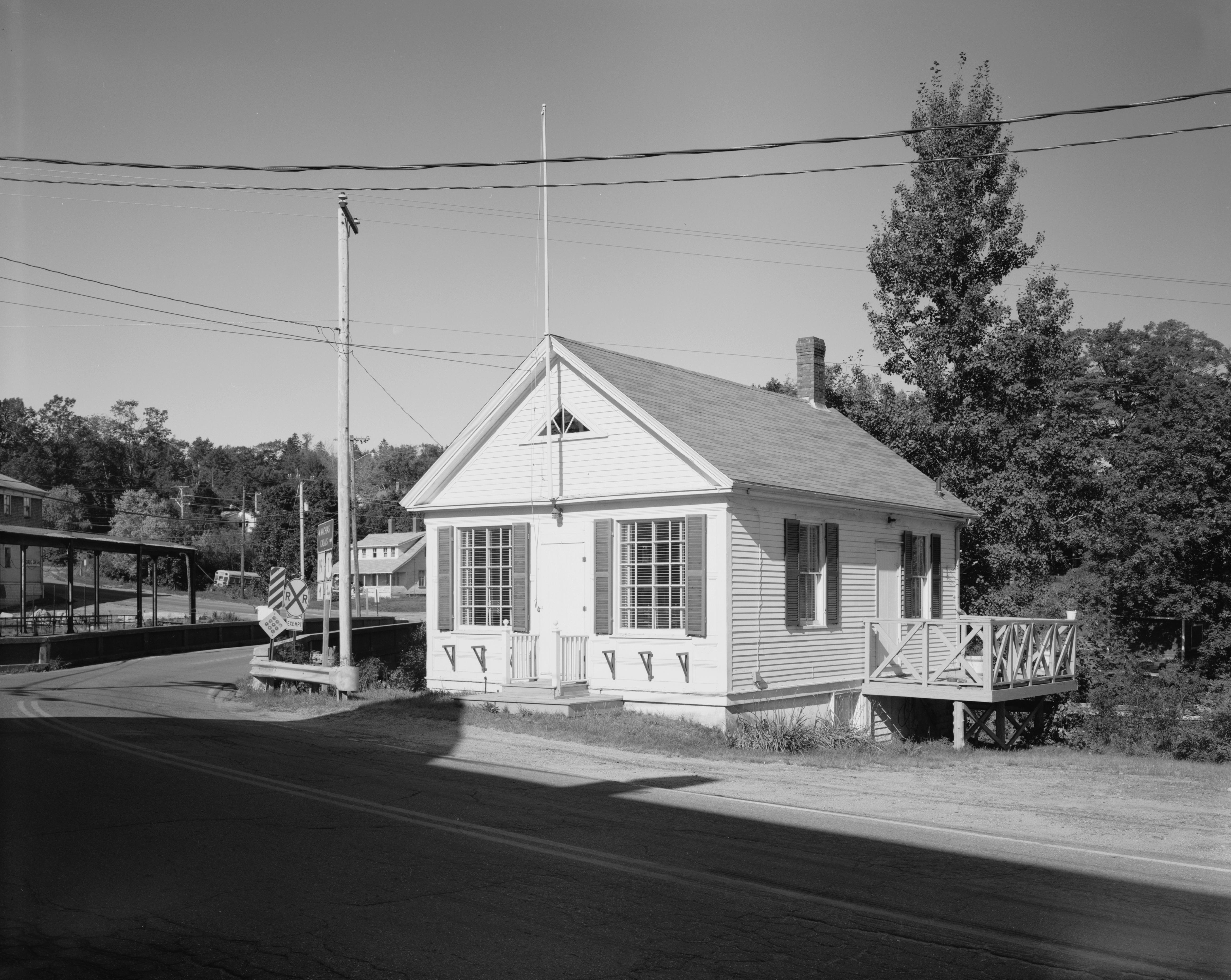 Front of the East Machias Post Office, located along Bridge Street at its intersection with High Street in East Machias, a village in the town of Machias in Washington County, Maine, United States. The post office is part of the East Machias Historic District, a historic district that is listed on the National Register of Historic Places.